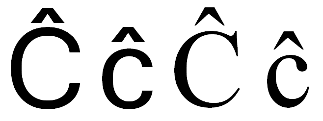 Latin_letter_Ĉĉ, use in Esperanto language.